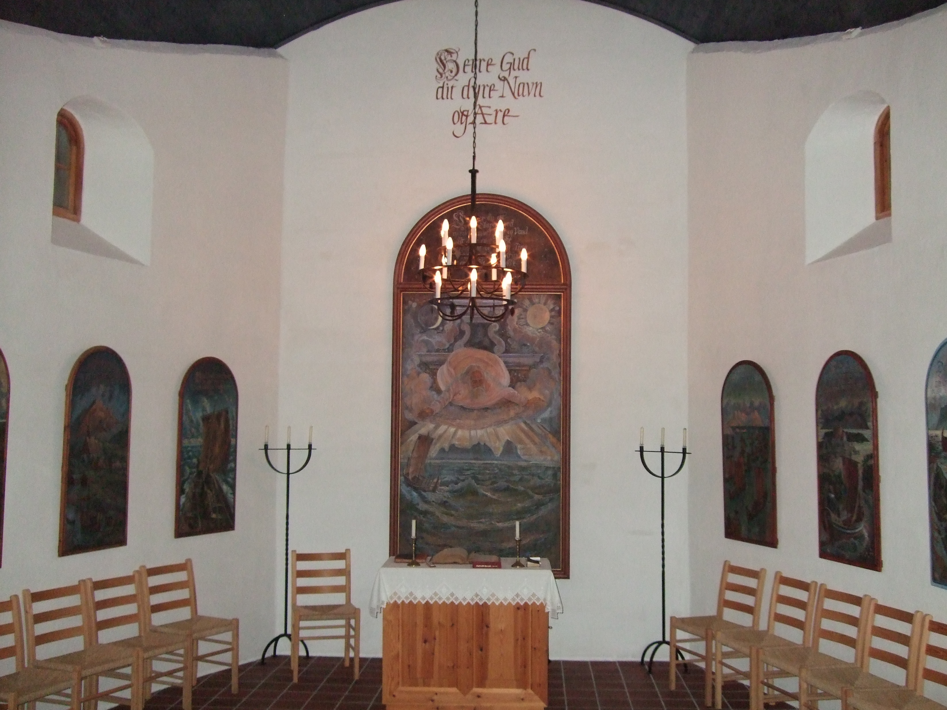 Interior from the Petter Dass chapel, decorated by Karl Erik Harr